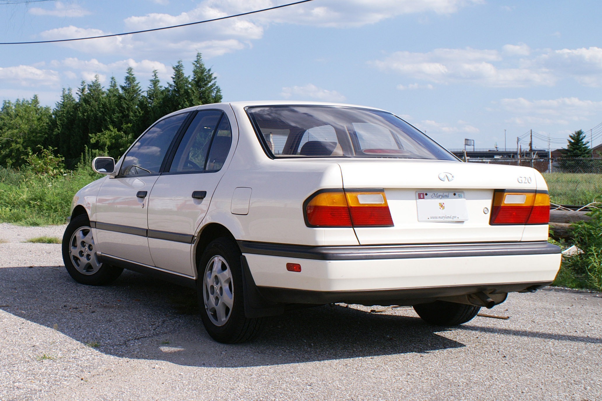 Author: David Fulton-Howard